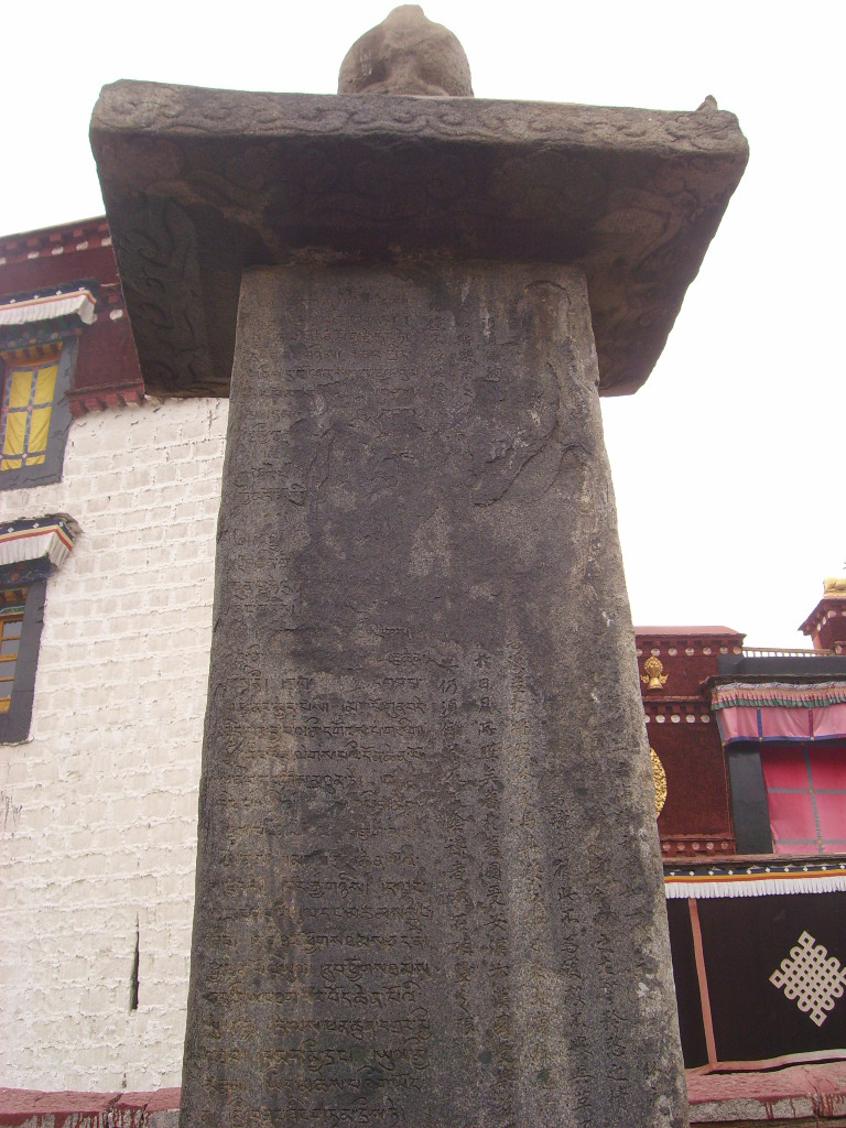 The Sino-Tibetan Treaty Inscription (front side) which was erected in 823, stands outside the Jokhang temple in Lhasa, China. A bilingual (Chinese and Tibetan) account of a peace treaty was inscribed on.